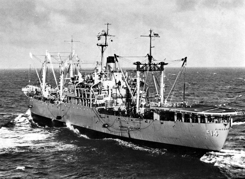 The U.S. Navy ammunition ship USS Firedrake (AE-14) off Vietnam.